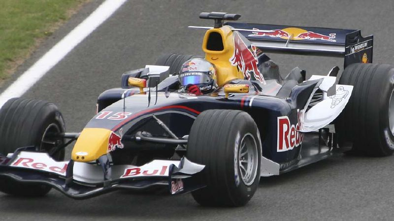 Christian Klien driving for Red Bull Racing at the 2005 British Grand Prix.